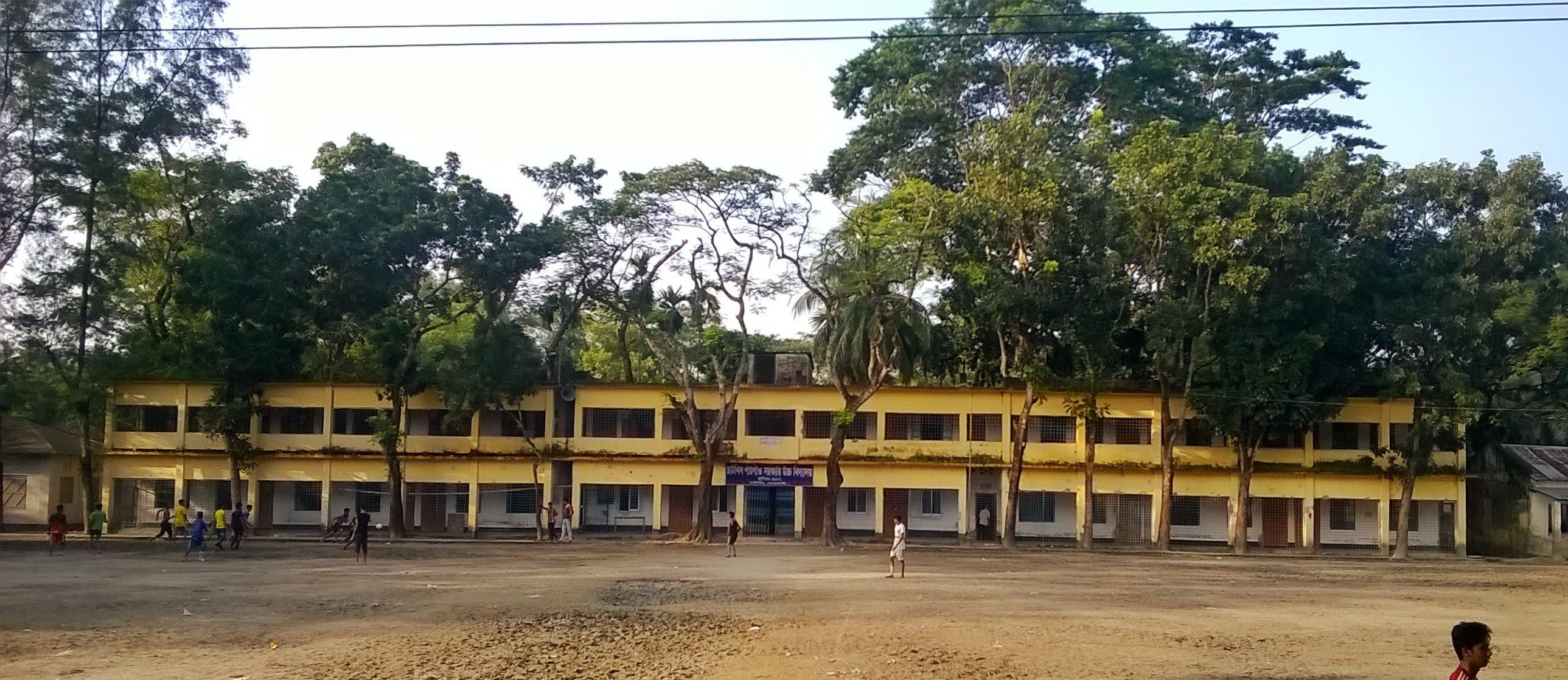 Chatkhil PG high school.